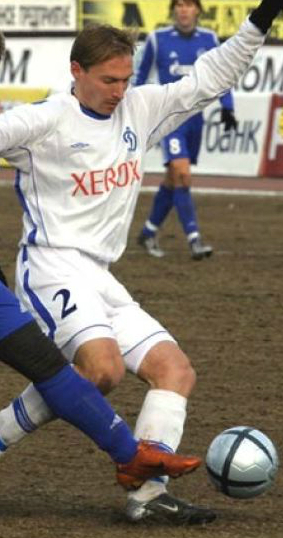 Alexandr Covalenco in action for FC Dinamo Moscow